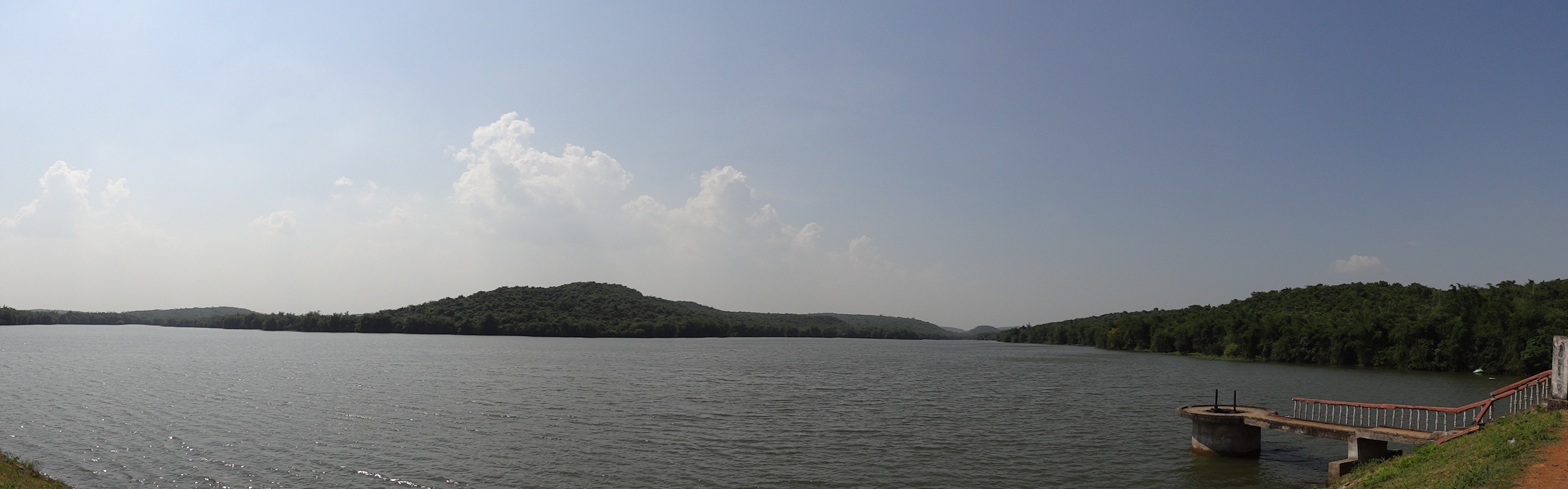 Deras Dam, is a water reservoir situated within Chandaka Wildlife Sanctuary, near Bhubaneswar, Orissa.